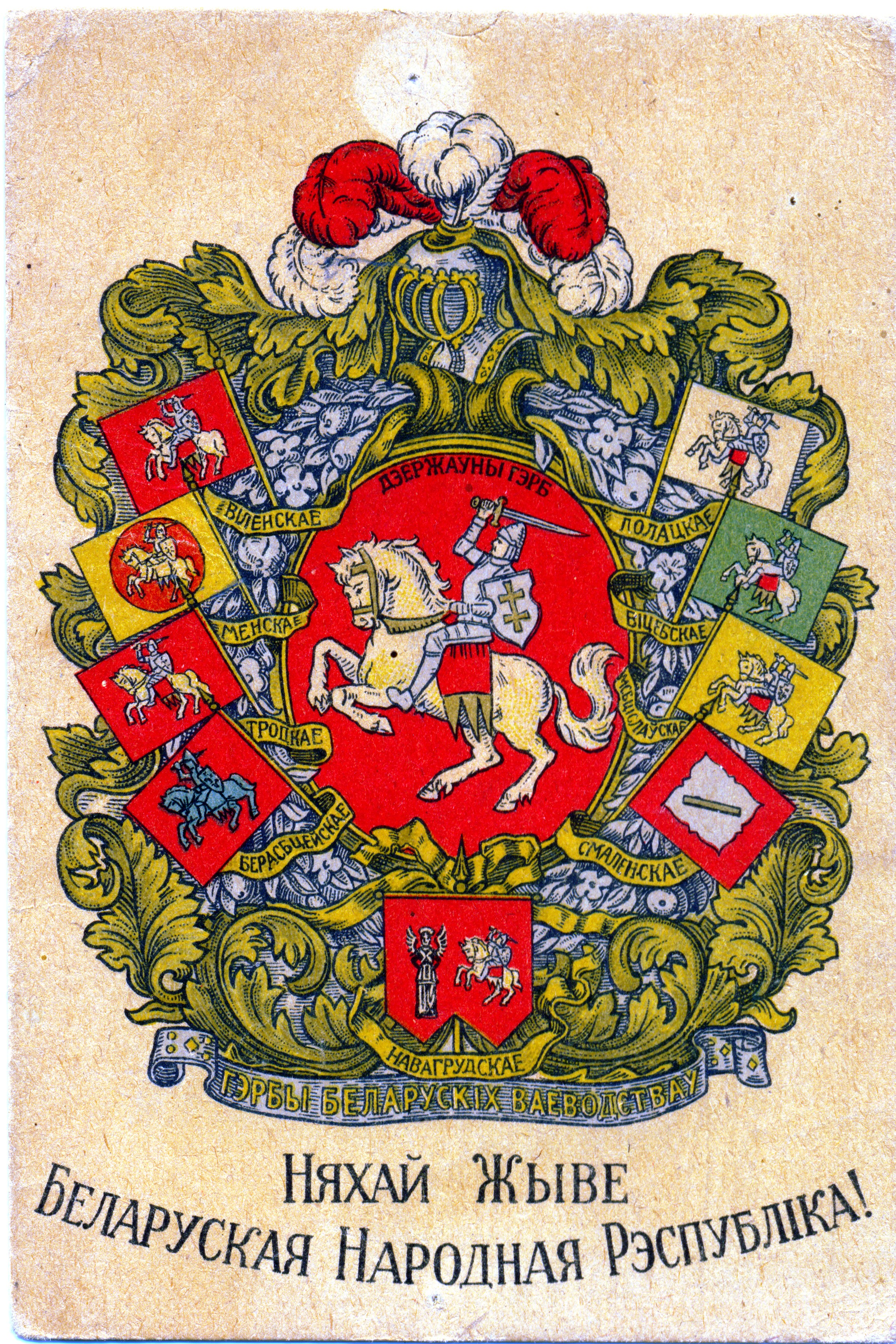 Postcard "Long Live Belarusian People's Republic. Coats of arms of Belarusian voivodships", 1918-1920